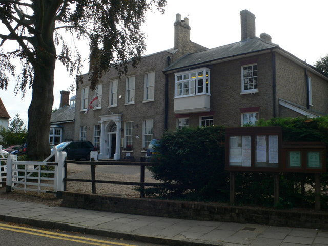 This building on Market Hill is the C18 Manor House. This is now owned by Buntingford Town Council and houses the Tourist Information Point and Heritage Centre.